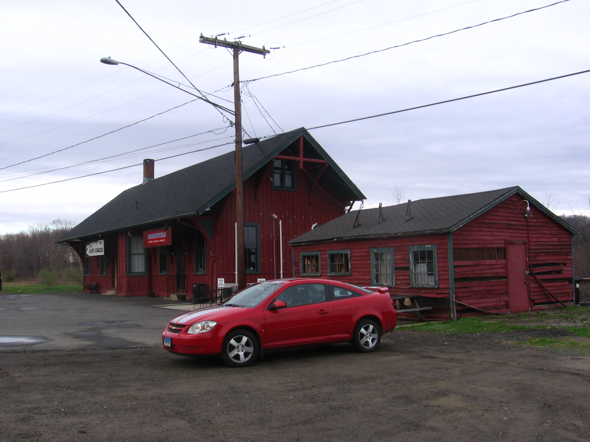 Newtown station in Newtown, Connecticut, USA is home to Cave Comics and Burgerittoville.